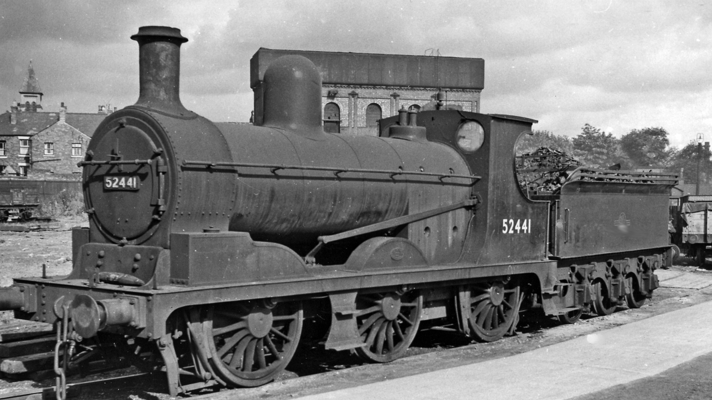 Ex-L&Y 0-6-0 as a Crewe Works Pilot. Aspinall 27 Class 3F 0-6-0 No. 52441 (built 1890s, withdrawn 9/62) was employed in its final years as one of the several Crewe Works Pilots. [N.B.: I need help, please, with the precise location of my several images taken at Crewe Works, because I don't have a contemporary large-scale plan of the Works complex?] It's in an area sometimes known as the Stone Yard - Flag Lane water tower is visible behind.